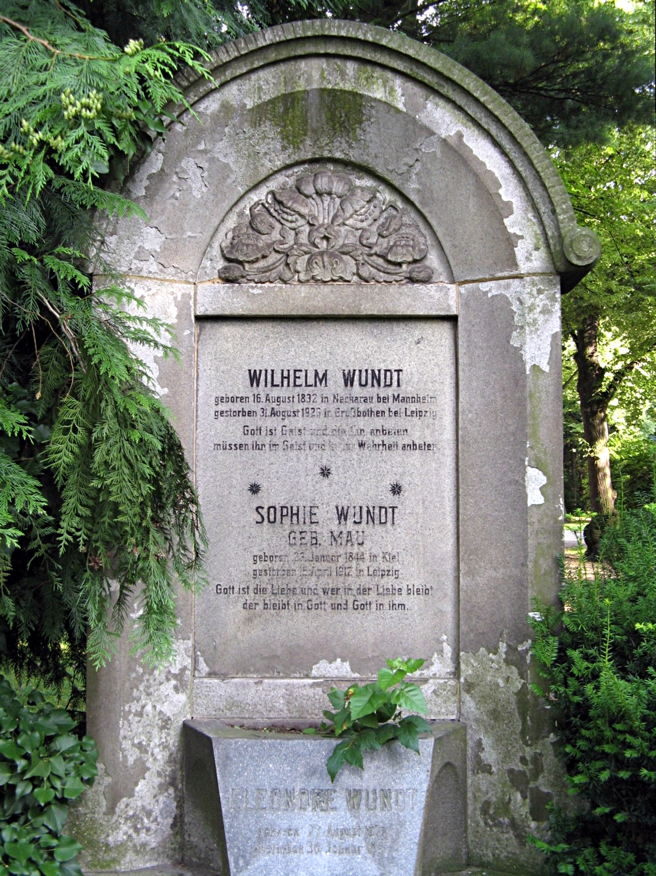 Gravestone of Wilhelm Wundt, father of psychology, at Südfriedhof (southern cemetery) Leipzig